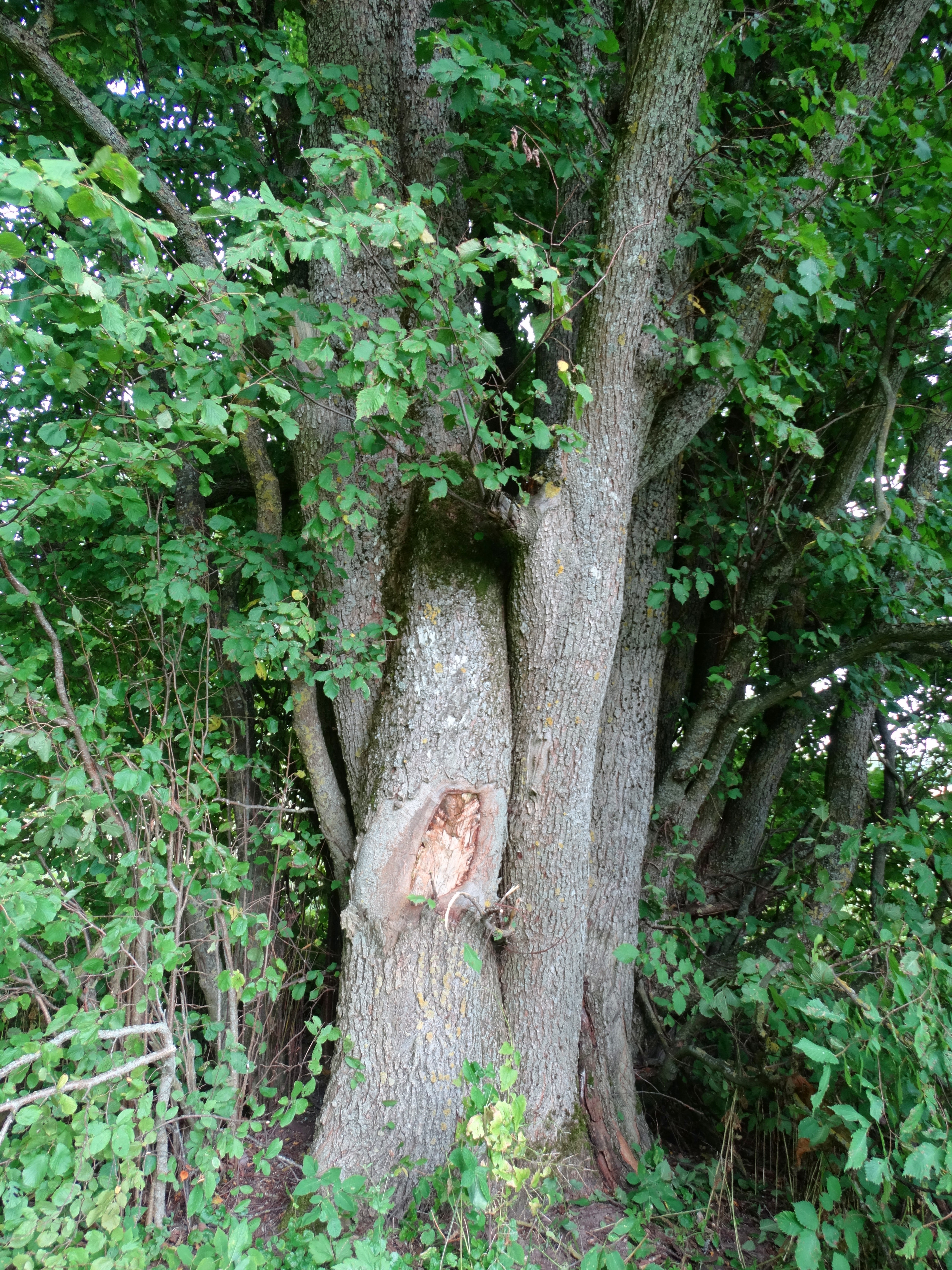 European White Elm, Šiliškiai, Akmenė District, Lithuania